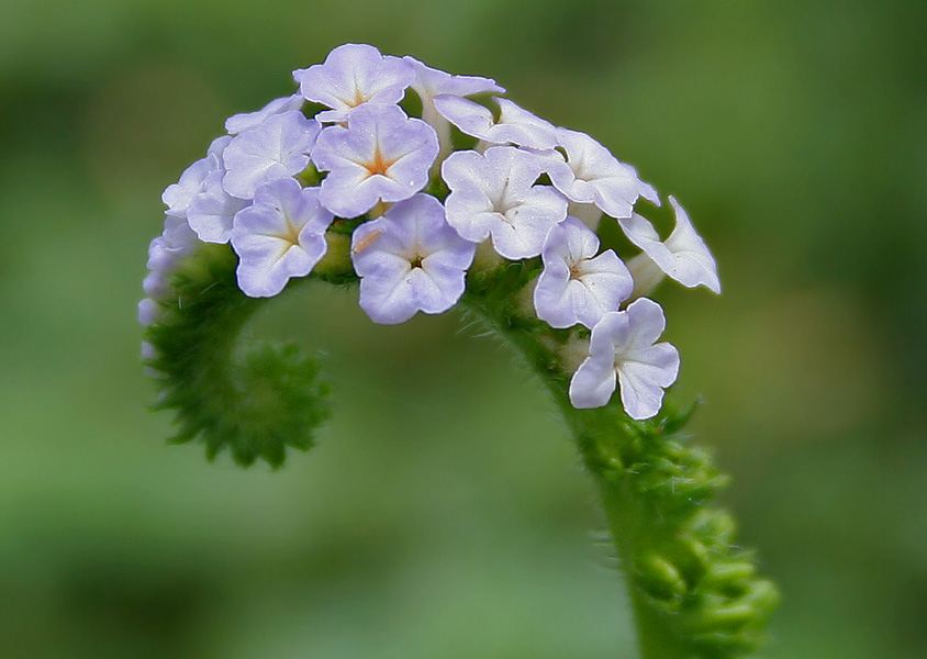 Heliotropium indicum (syn. Heliophytum indicum, Heliotropium parviflorum, Tiaridium indicum) - Indian turnsole, Hatisurh, in Gujarati 'Haathi sundh', Indian Heliotrope, Erysipelas plant, Scorpion weed, Wild clary • Hindi: Siriyari, Hatishura • Manipuri: Leihenbi • Marathi: Bhurundi, Vinchavi • Tamil: Thel - Kodukku • Malayalam: Thekkada • Telugu: Nagadanthi • Kannada: Chelukondi gida • Bengali: Hasti-sura • Oriya: Hati-sand • Konkani: Ajeru - at Pocharam lake, Andhra Pradesh, India.